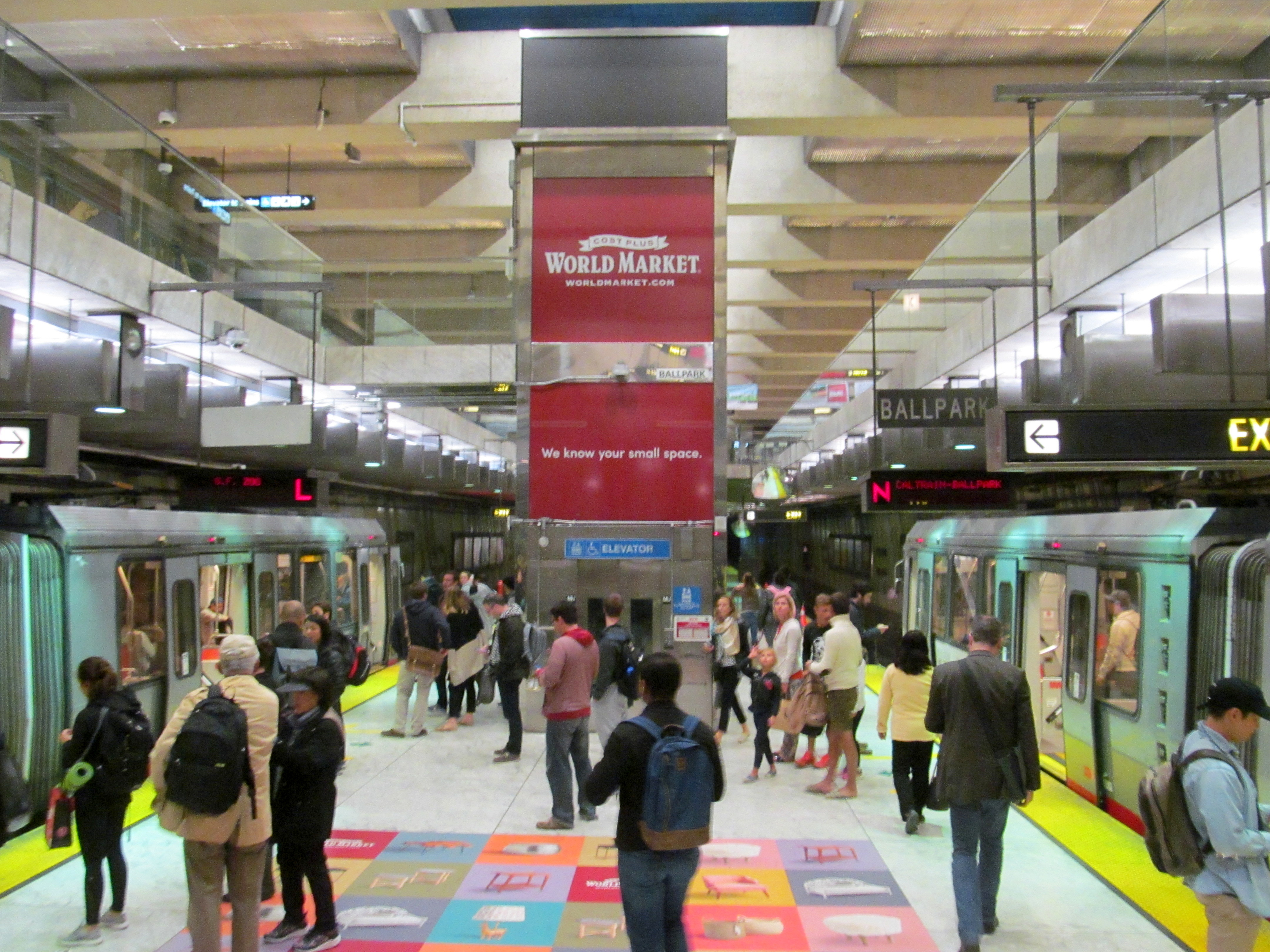 Two Muni Metro trains at Embarcadero station in August 2017